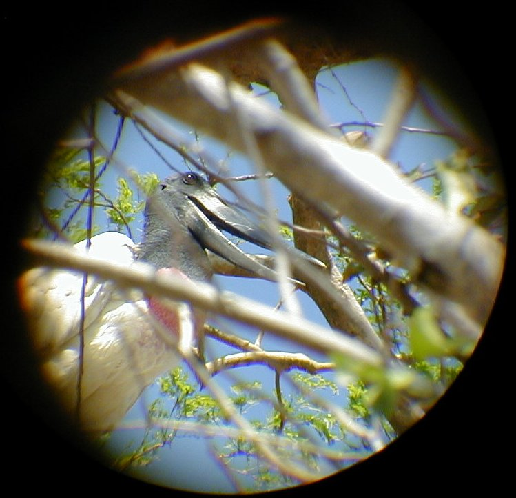 Photo taken by me user debivort, April 2000.